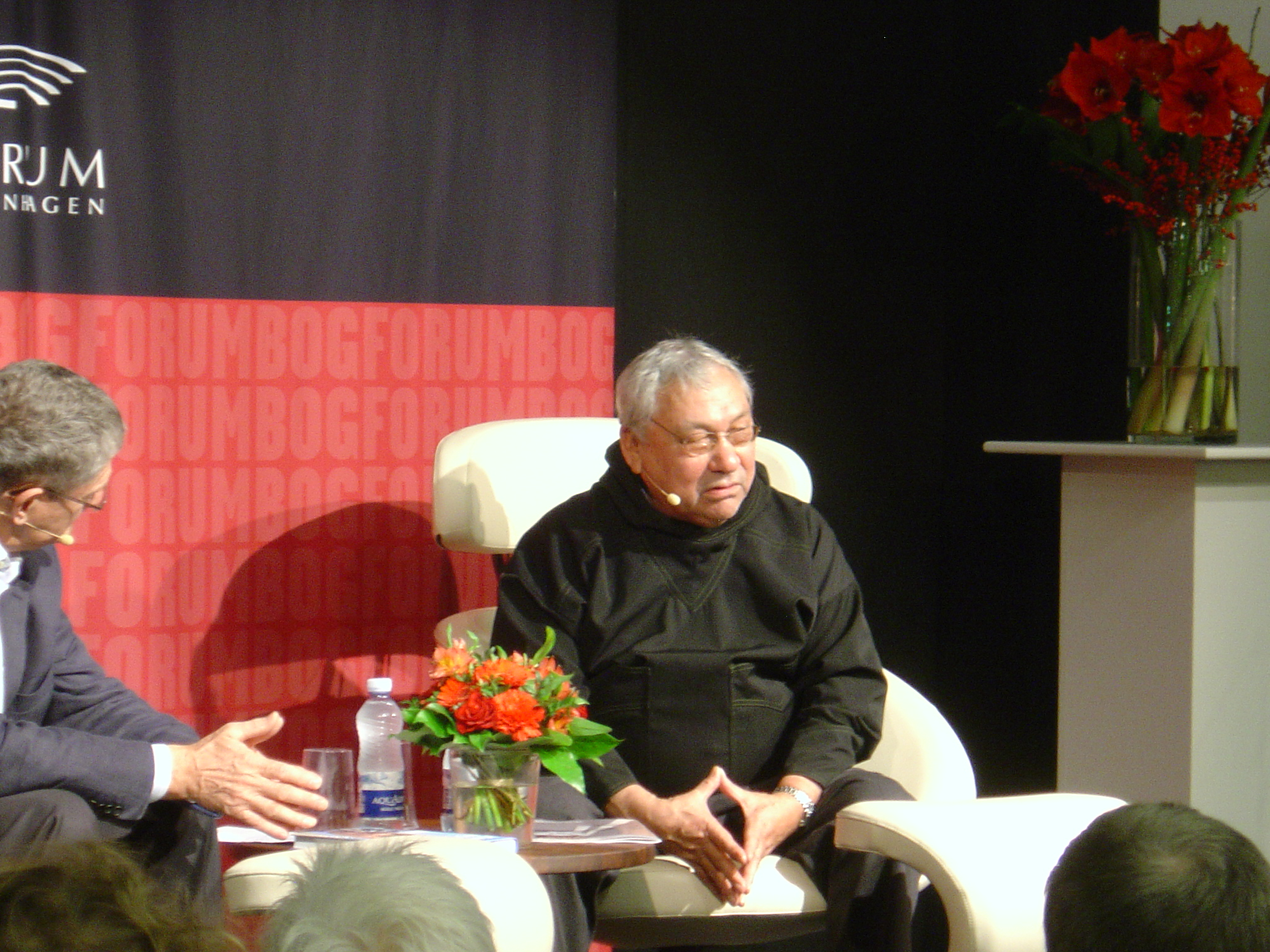 Jonathan Motzfeldt - the first Prime Minister of Greenland and a priest, on 16 November 2008 at the annual Danish book fair, BogForum (November 14-16, 2008), in Forum Copenhagen.